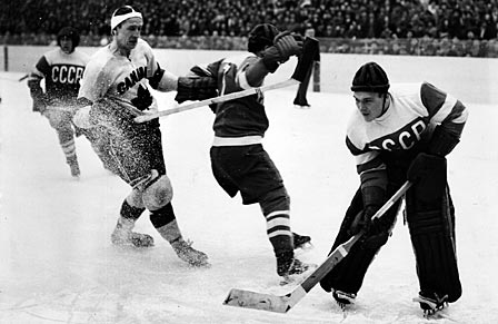 CCCP - Soviet Union vs. Canada in the 1954 World Ice Hockey Championships in Stockholm, Sweden. Soviet Union sensationally defeated Canada 7-2 in the final and won the gold in its first championship ever.